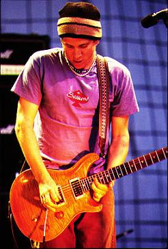 Picture of primus guitarist with a Paul Reed Smith guitar